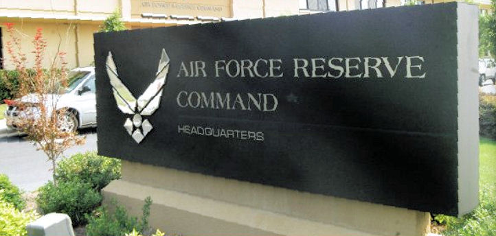 Air Force Reserve Command HQ, Robins AFB, Georgia